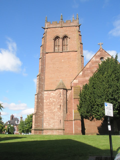 Church tower of St Leonard's, near to Bridgnorth, Shropshire, Great Britain.